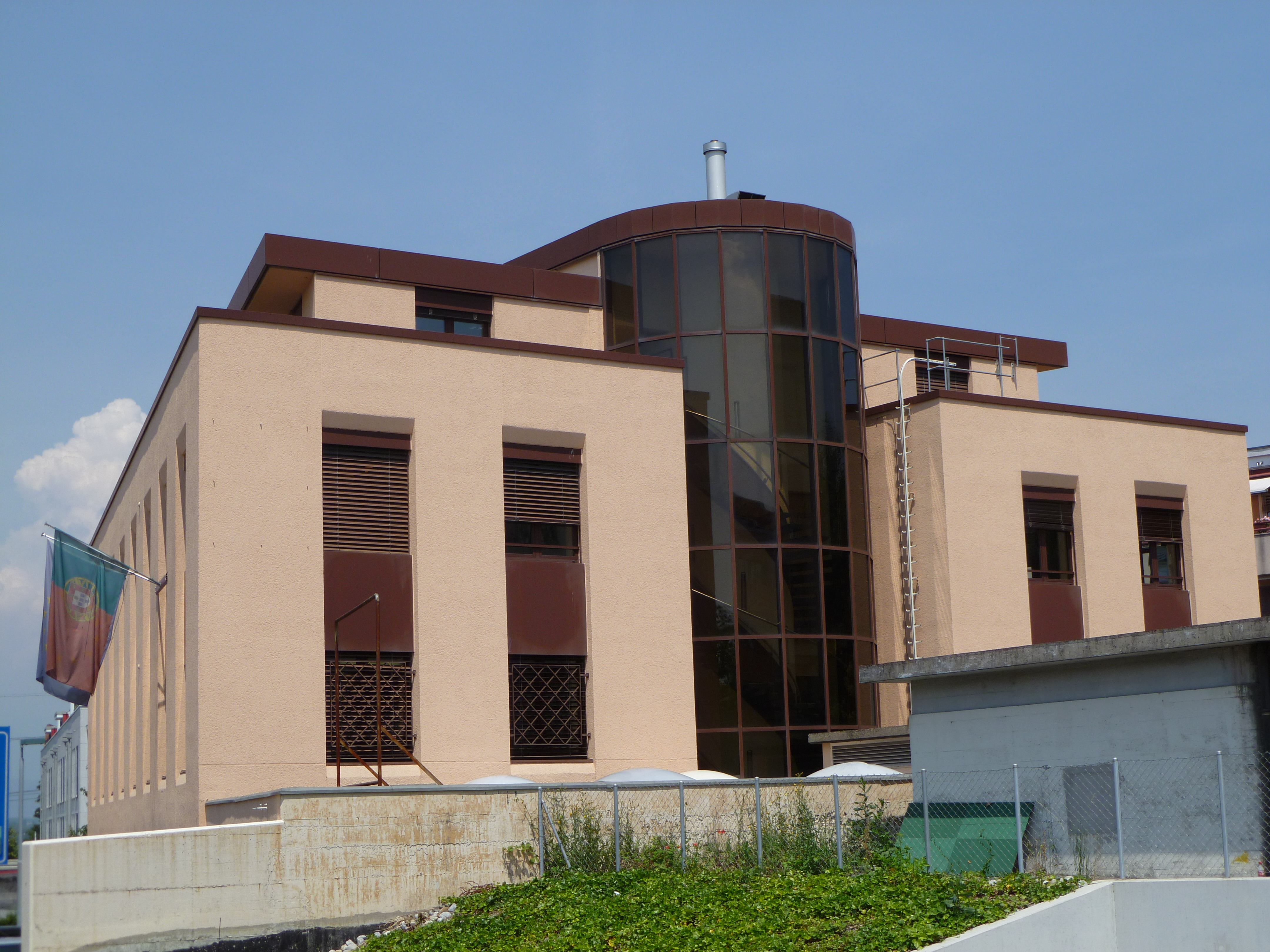 Photo of the Building housing the Portuguese Consulate in Geneva